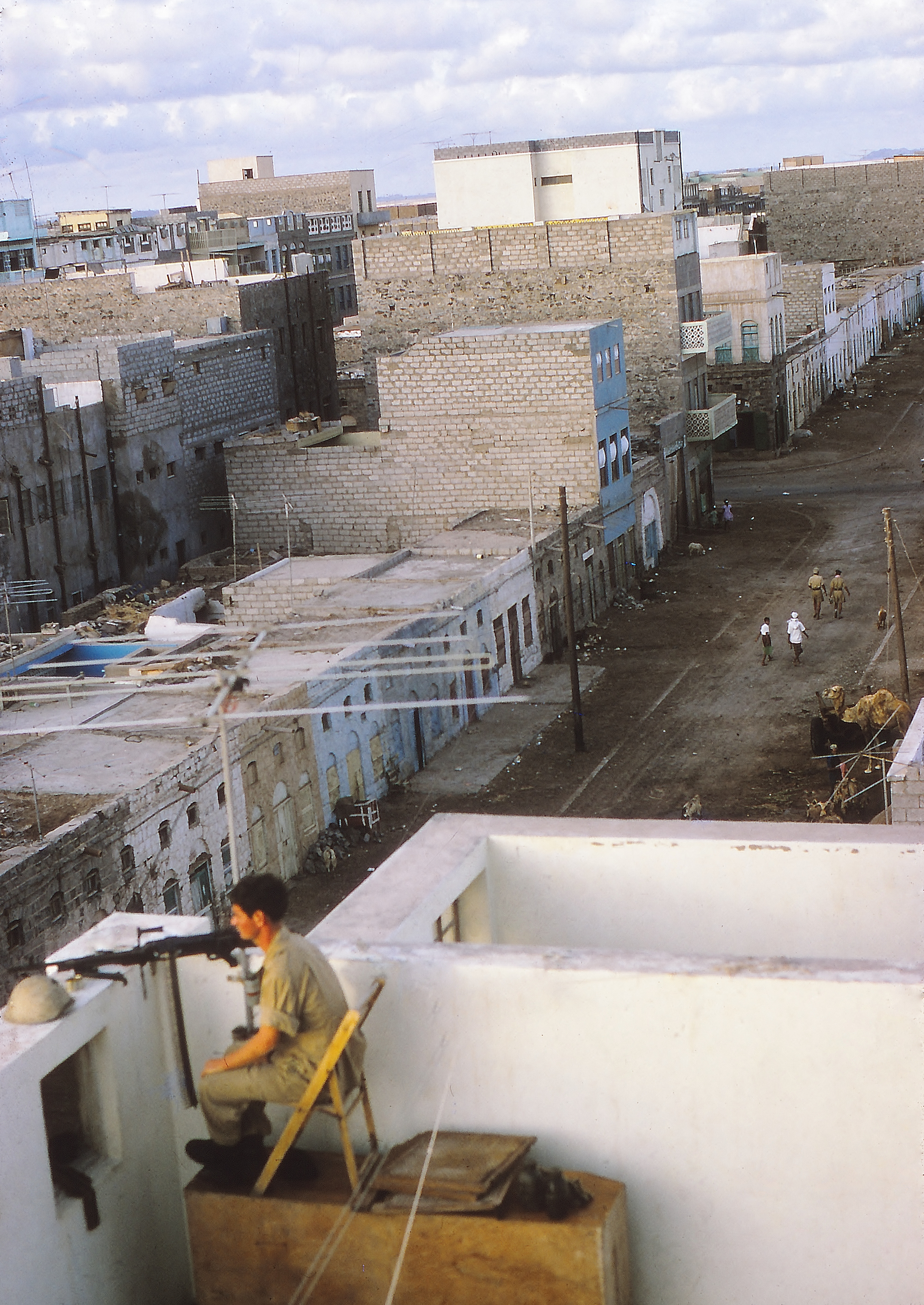 By 1966, Sheikh Othman was being torn apart by political factions battling each other, NLF, FLOSY, PFLOAG, to name the three main protagonists, each determined to gain control once the British left Aden. NLF = National Liberation Front FLOSY = Front for the Liberation of South yemen. PFLOAG = Peoples Front for the Liberation of the Arabian Gulf?